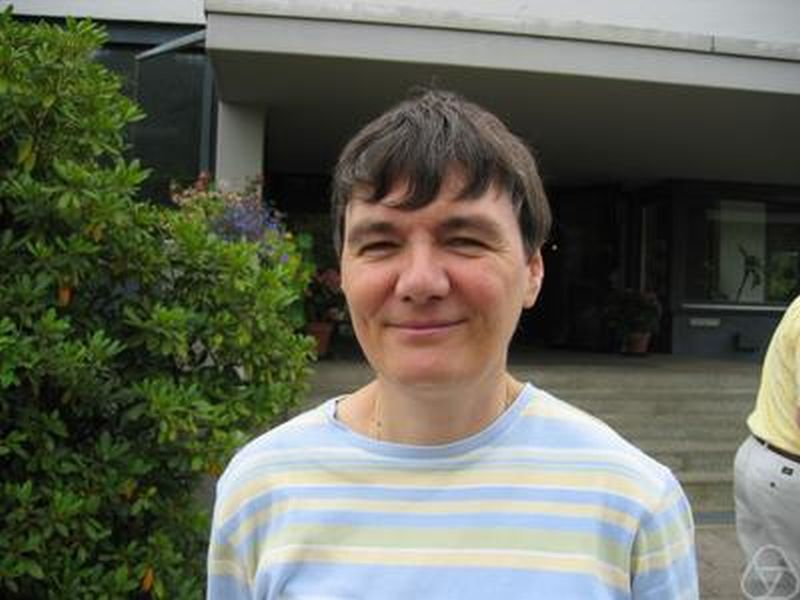 Geneviève Raugel, Oberwolfach 2004